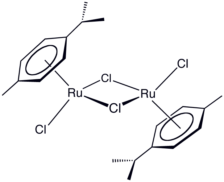 Structure of cymene-Ru Cl2 dimer